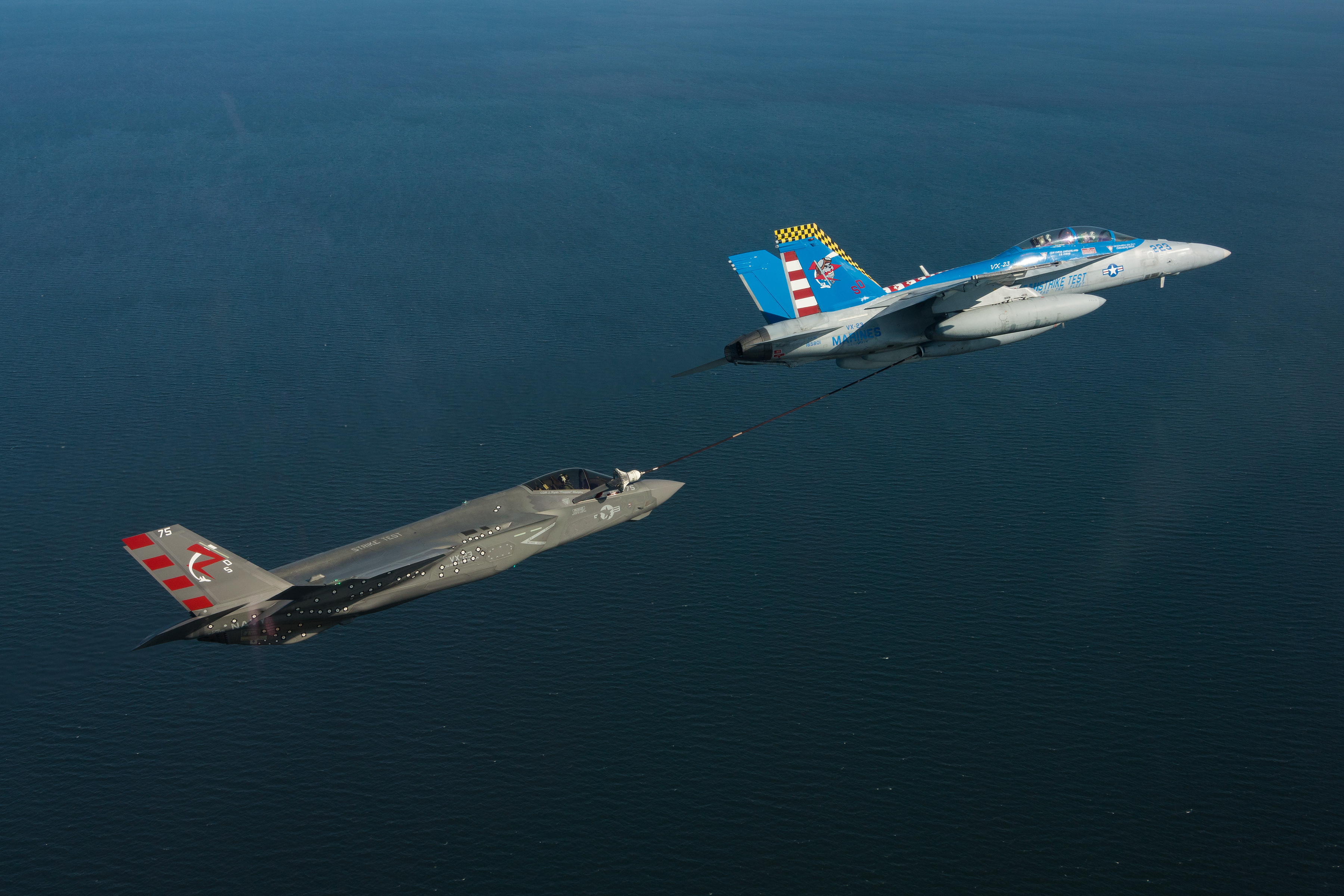 U.S. Navy Lt. William Bowen, left, an F-35 Pax River Integrated Test Force pilot assigned to Air Test and Evaluation Squadron 23 (VX-23), conducts an advanced aerial refueling control law test in an Lockheed Martin F-35C Lightning II with a Boeing F/A-18F Super Hornet (BuNo 165801) over the Atlantic Ocean on 26 June 2018.